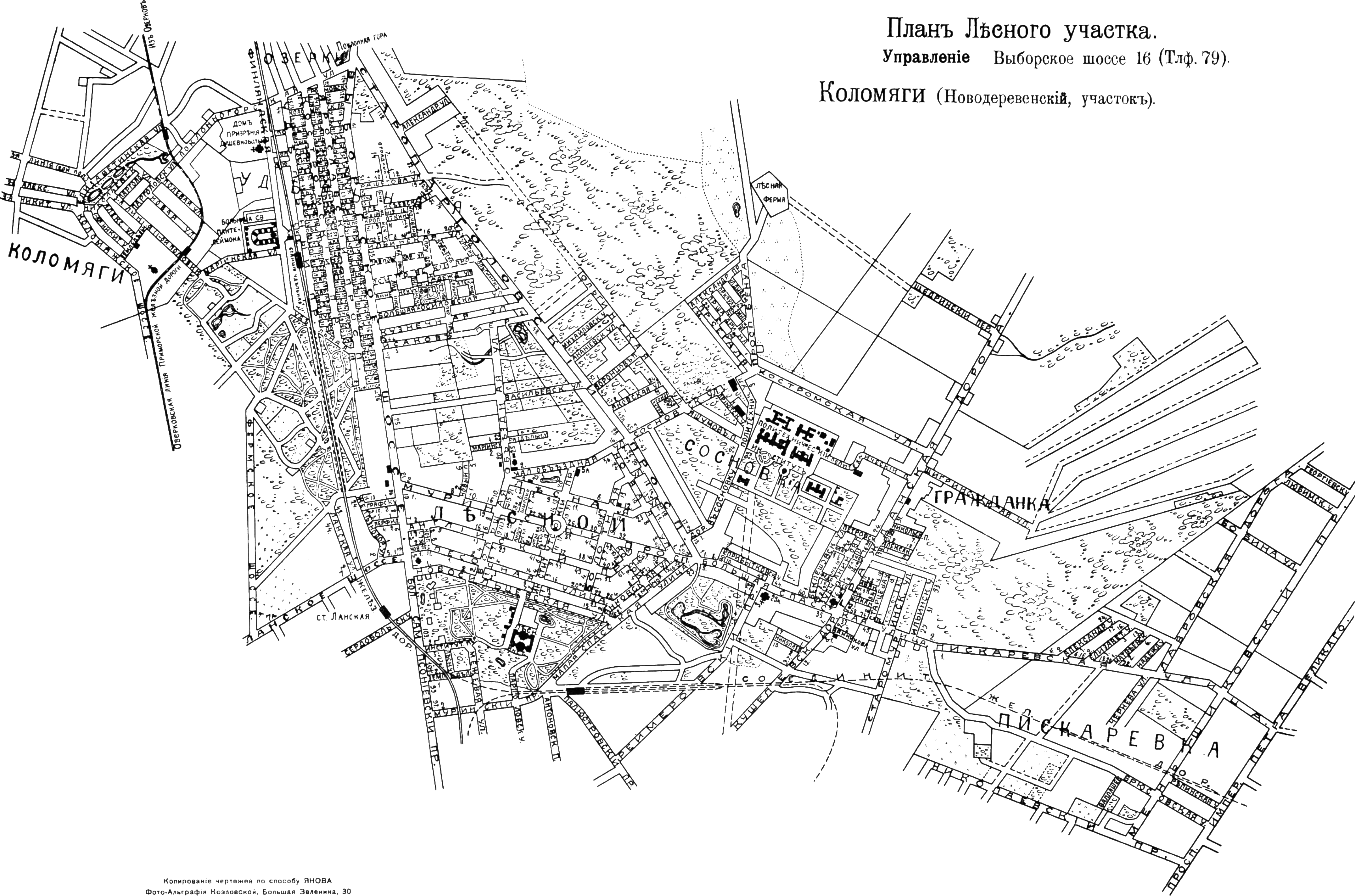 The hand-drawn map of 'Lesnoy Uchastok' - one of the closest suburban districts of Petersburg in Russia